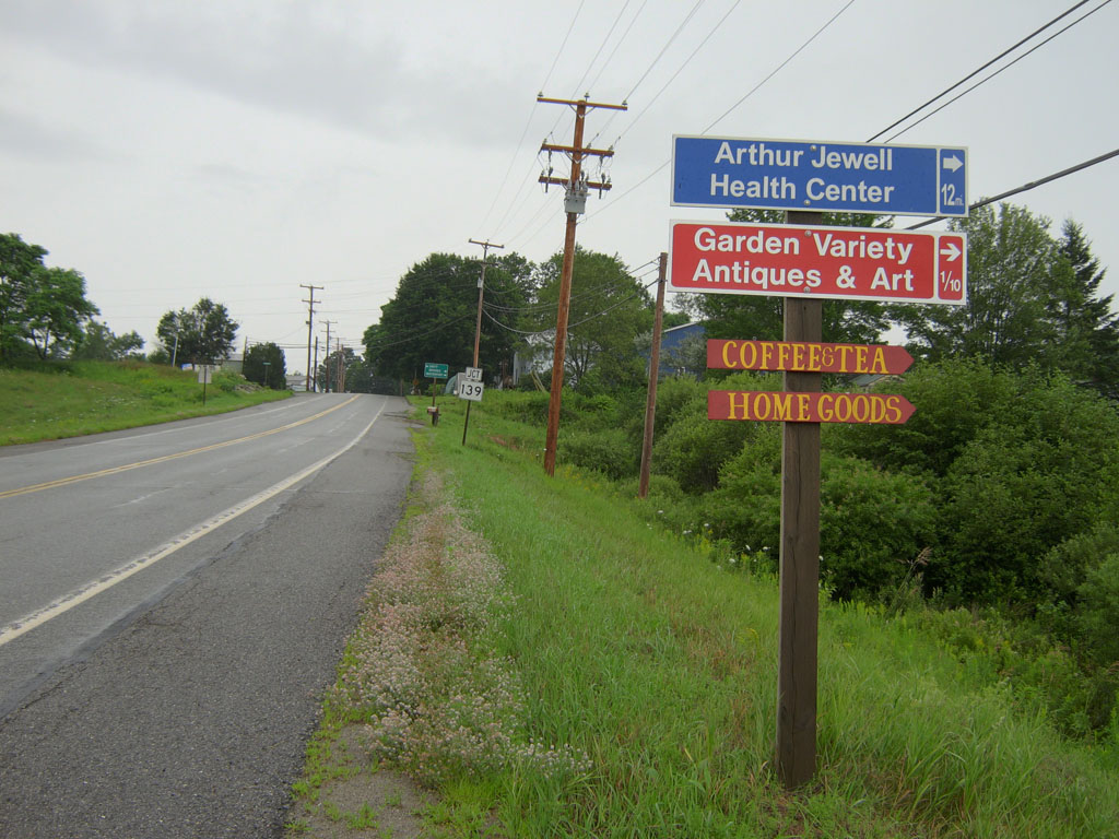 Thorndike looking north on ME 220 towadrs ME 139.